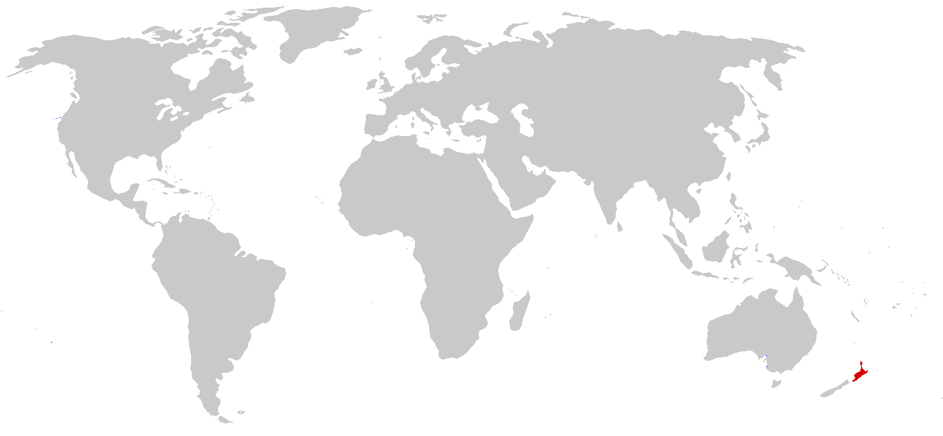 World distribution of Order Rhynchocephalia, after data from Cogger, H.G & Zweifel, R.G. (1998). Reptiles & Amphibians". ISBN 0121785602